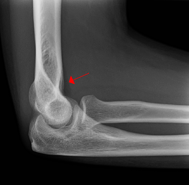 A normal anterior fat pad in a none fractured arm.